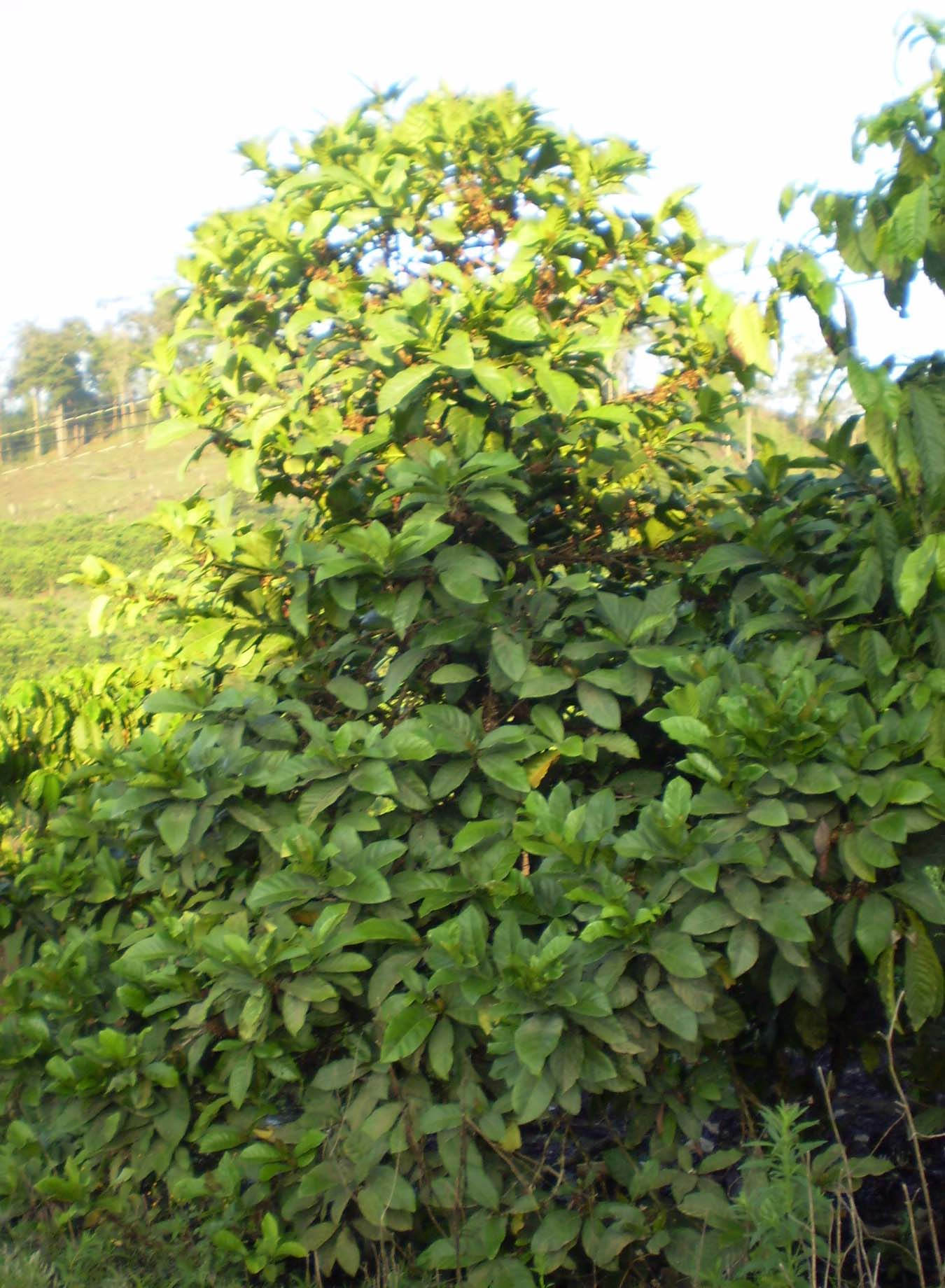 Tree of Coffea liberica in Lam Dong, Vietnam